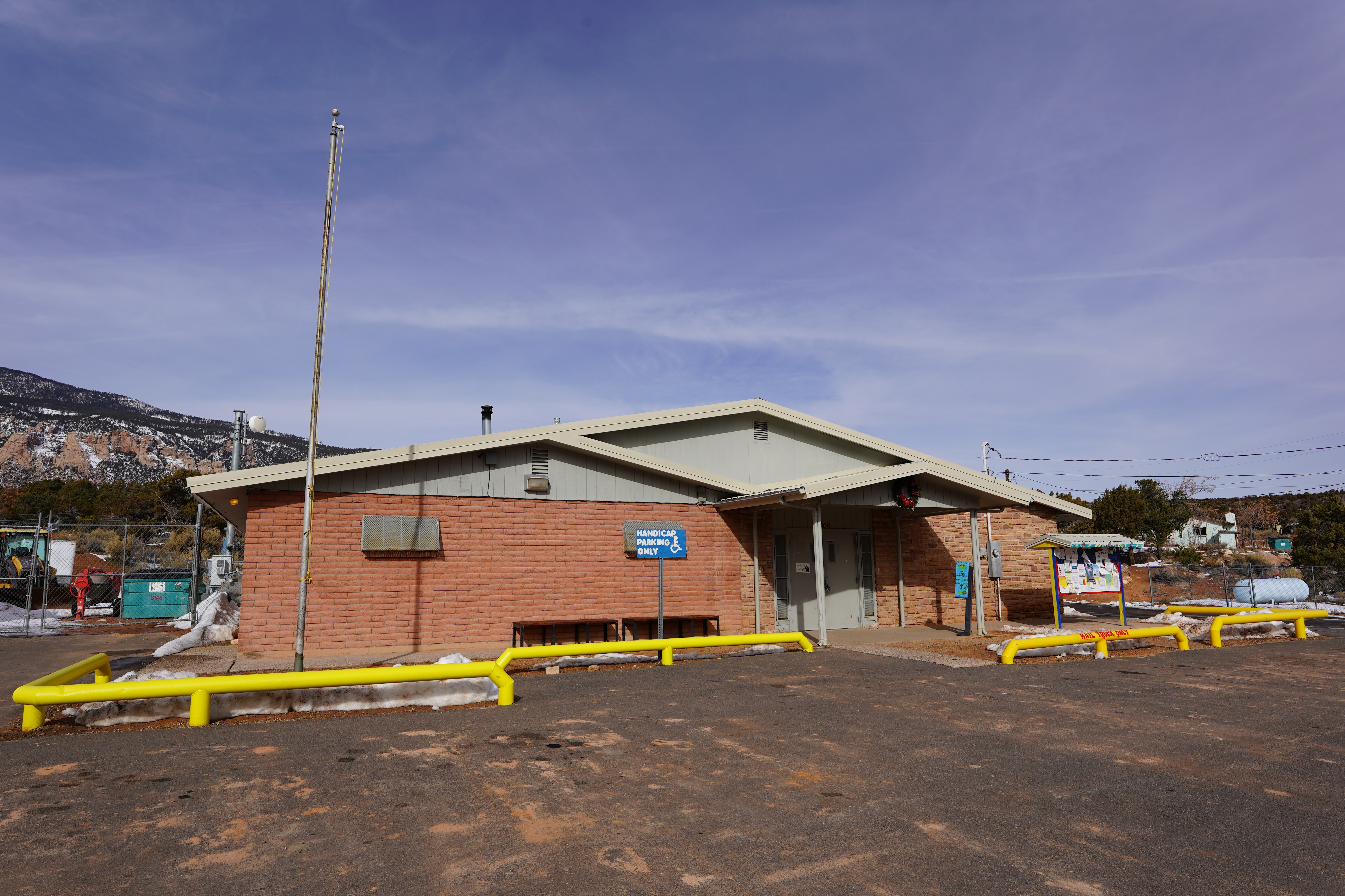 The Chapter House for the Naatsis'áán Chapter. It is the local meeting house in the Naatsis'áán (a.k.a. Navajo Mountain) community for elected representatives of the Navajo Nation government. Photograph taken on 2019-01-20T17:57:57Z.